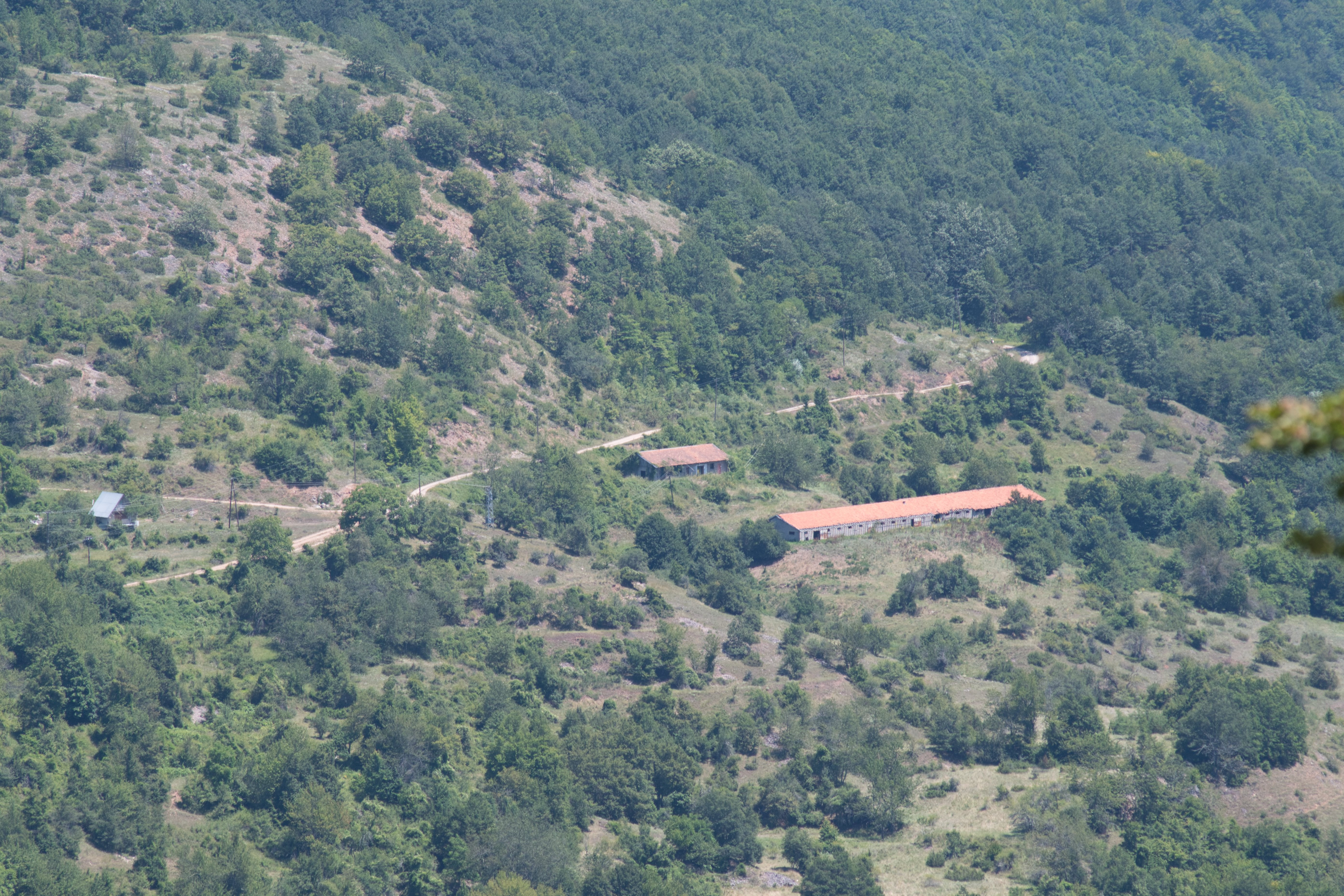 Former building of agricultural organisation between villages R'žanovo and Zbaždi